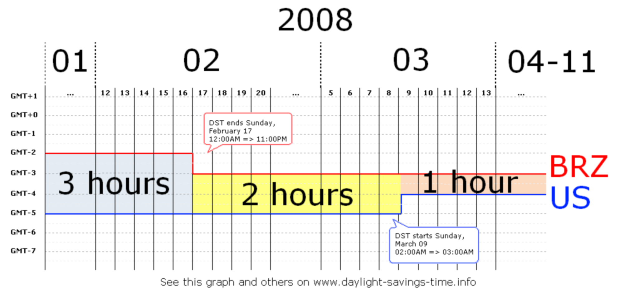 Hour differences between Brazil (central) and USA (eastern), caused by daylight saving changes, during the first half of 2008